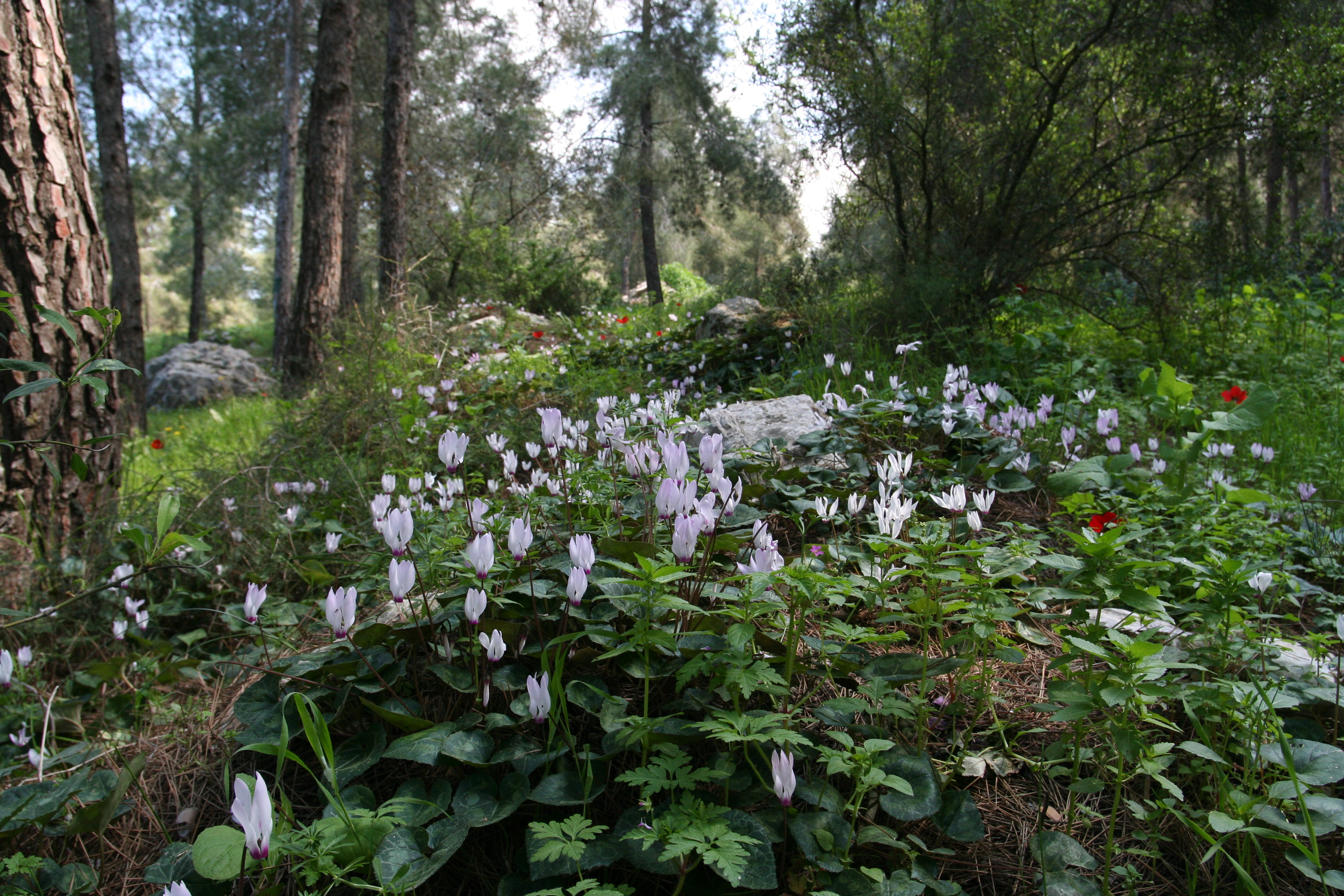 A group of cyclamen flowers